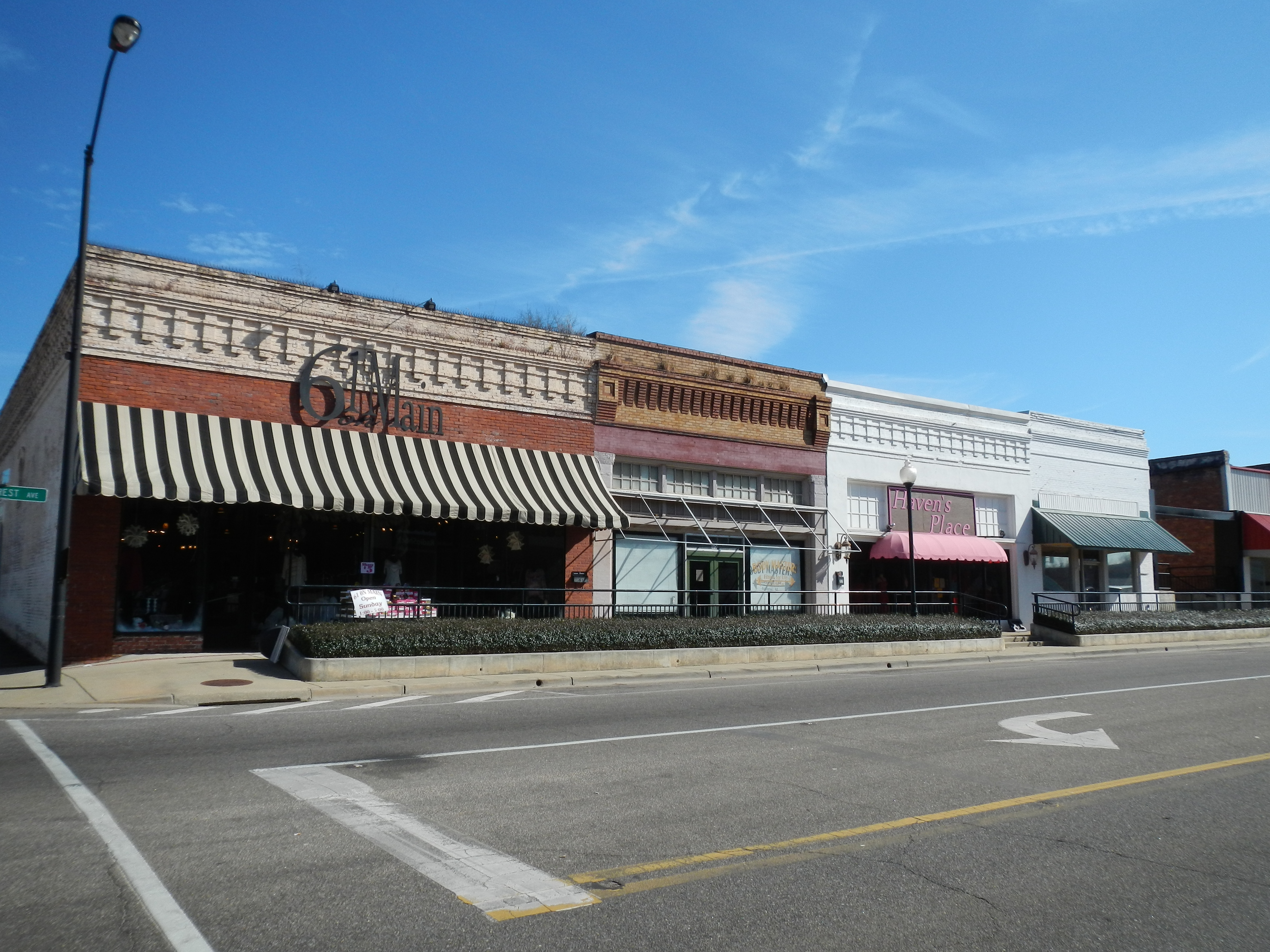 A photograph of the Luverne Historic District in Luverne, Crenshaw County, Alabama.